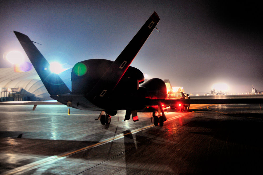 Airmen of the 380th Expeditionary Aircraft Maintenance Squadron tow an RQ-4 Global Hawk to a hangar Oct. 22, 2009. The Global Hawk aircraft provides intelligence, surveillance and reconnaissance for Operation Enduring Freedom. (U.S. Air Force photo/Tech. Sgt. Charles Larkin Sr)